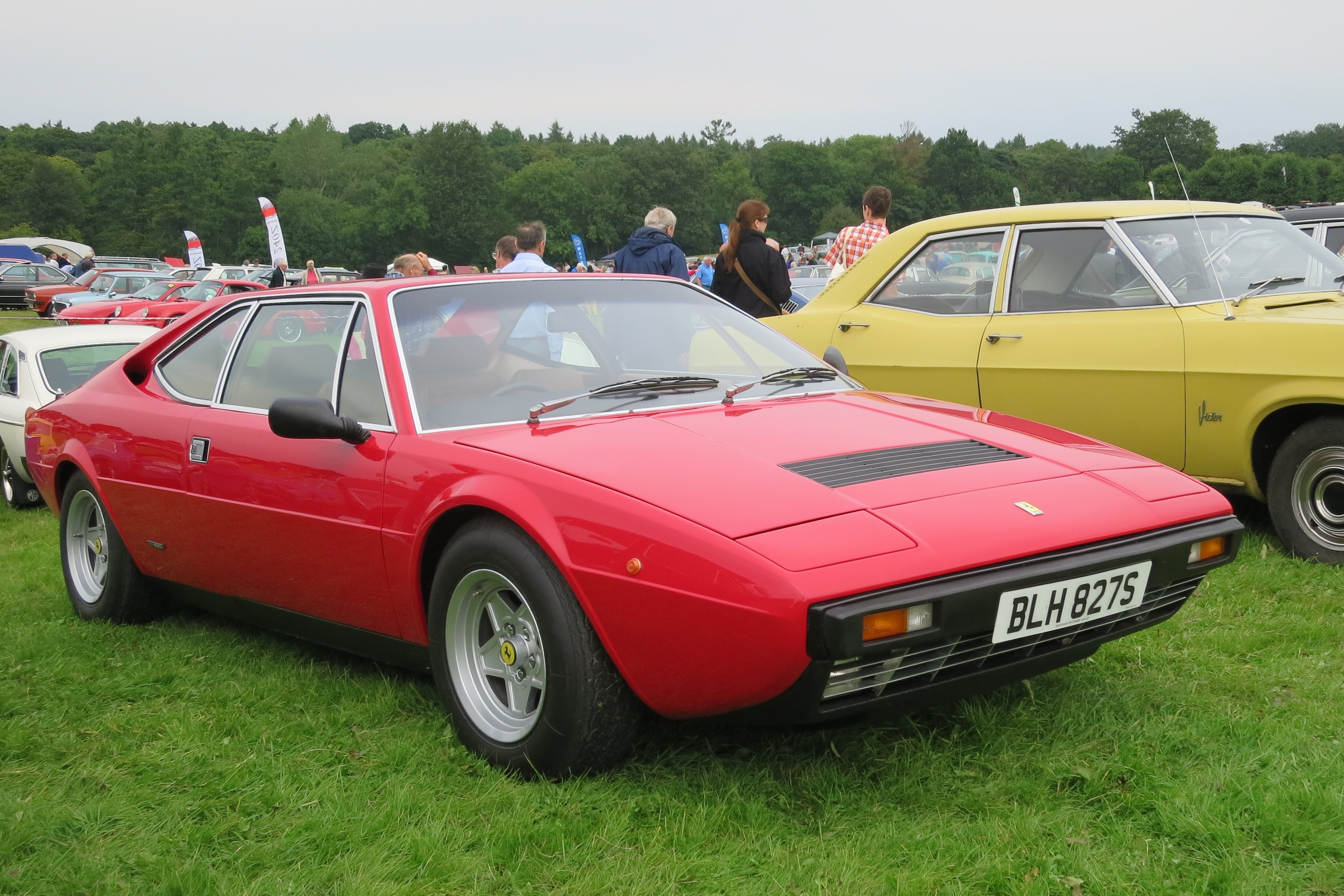 Ferrari Dino GT4 (1977) at Knebworth (2015)